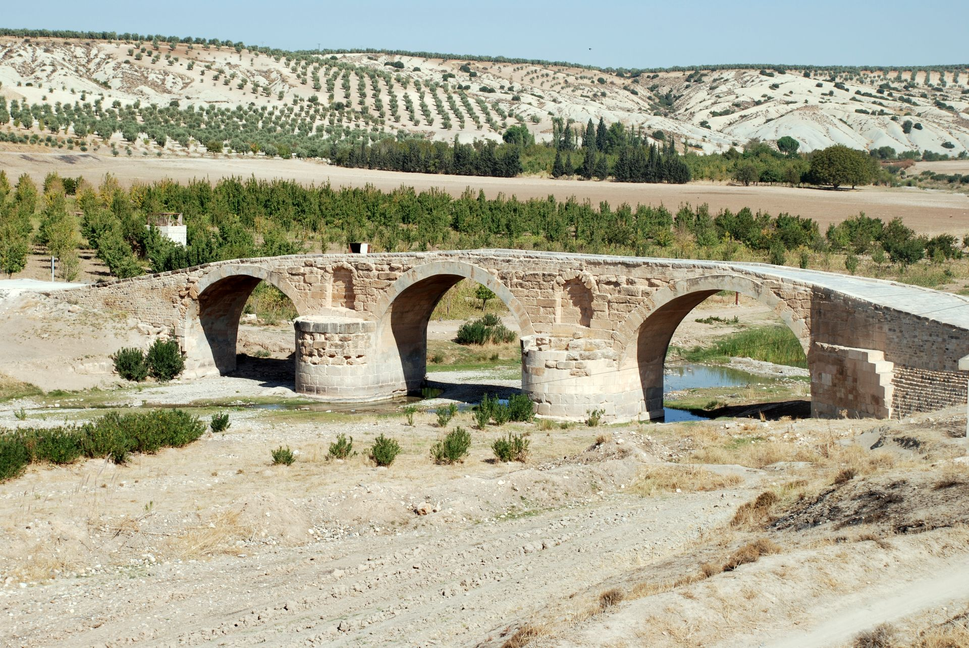 Ancient Roman bridge in Syria — over the Afrin River in Nebi Huri. Syria Olive (Olea europaea) orchards on hills.